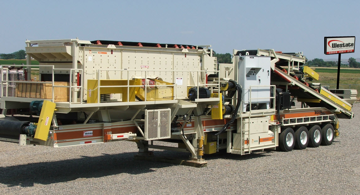 Portable Plant - Metso Nordberg HP300 Close Circuit Plant